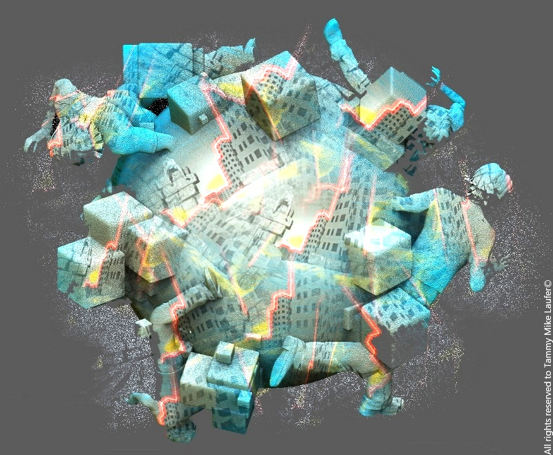 My world, digital drawing 2013, by Tammy Mike Laufer